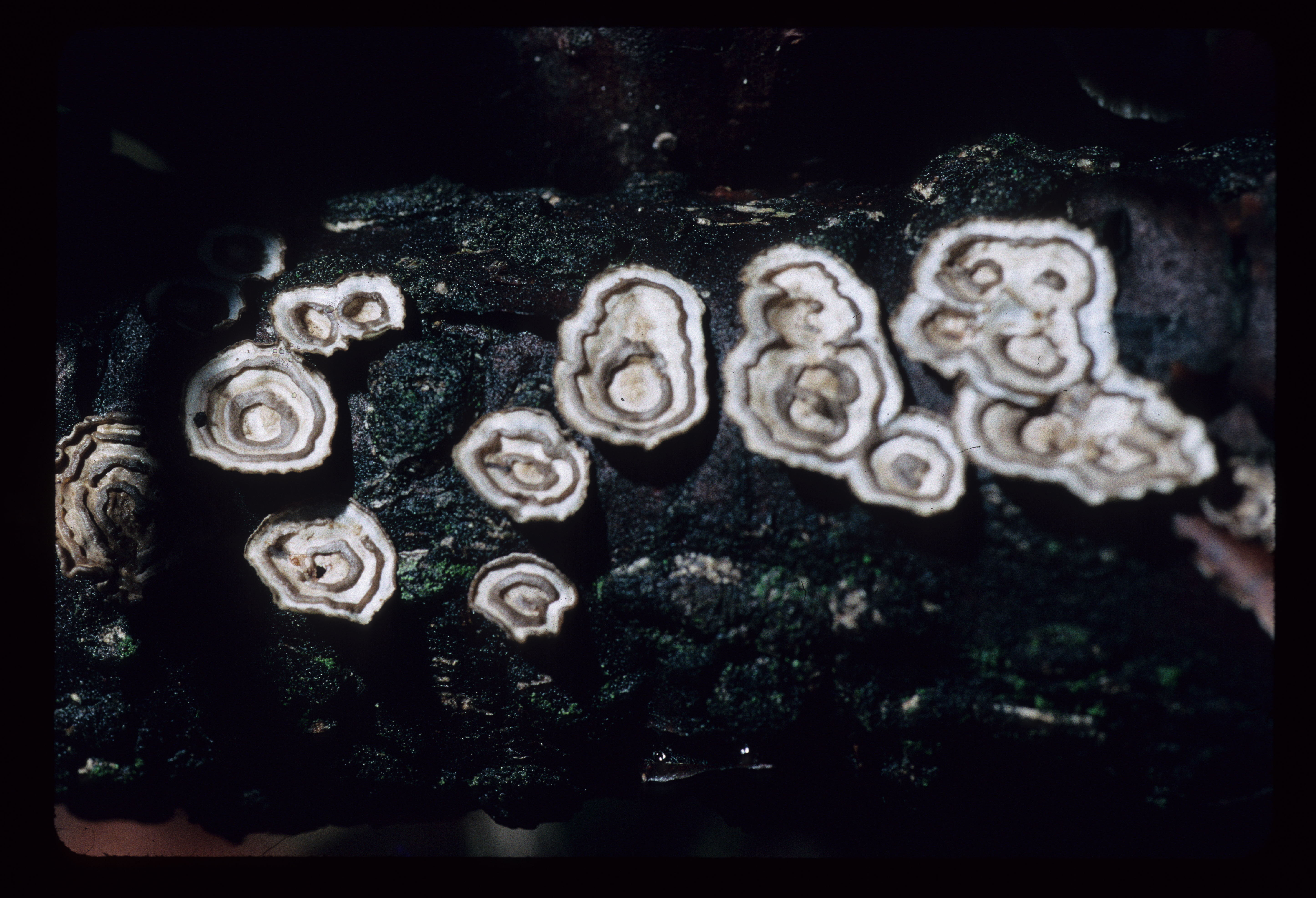 The fungus Poronidulus conchifer. Photographed in Tomlinson Run St park WV.